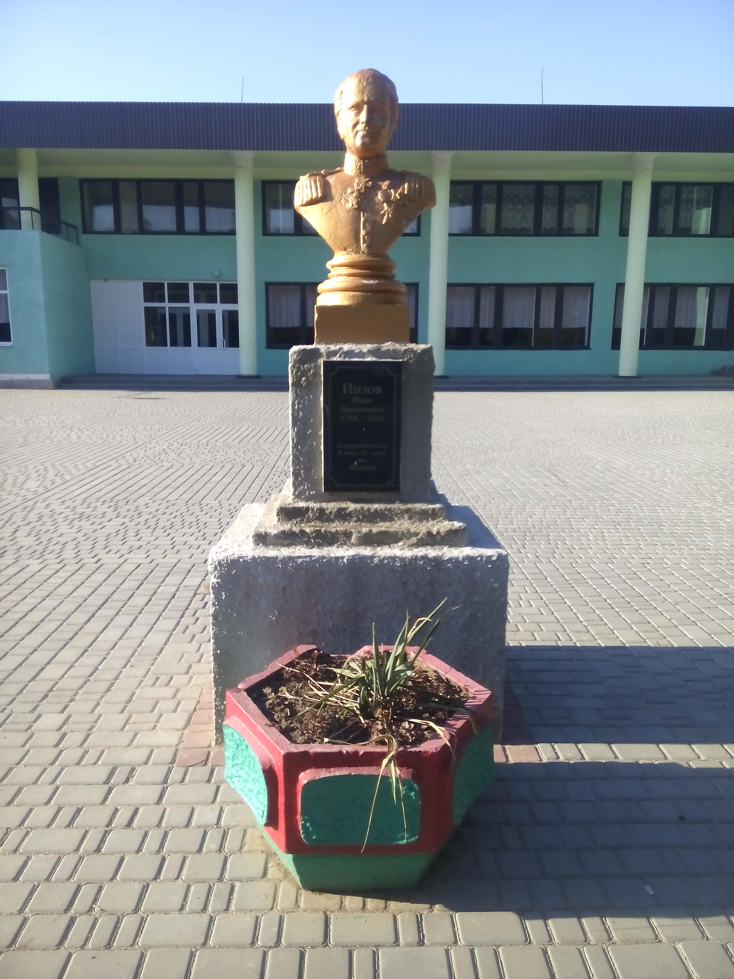 Inzov in village Inzivka in Prymorsk Raion of Zaporizhia Oblast, Ukraine